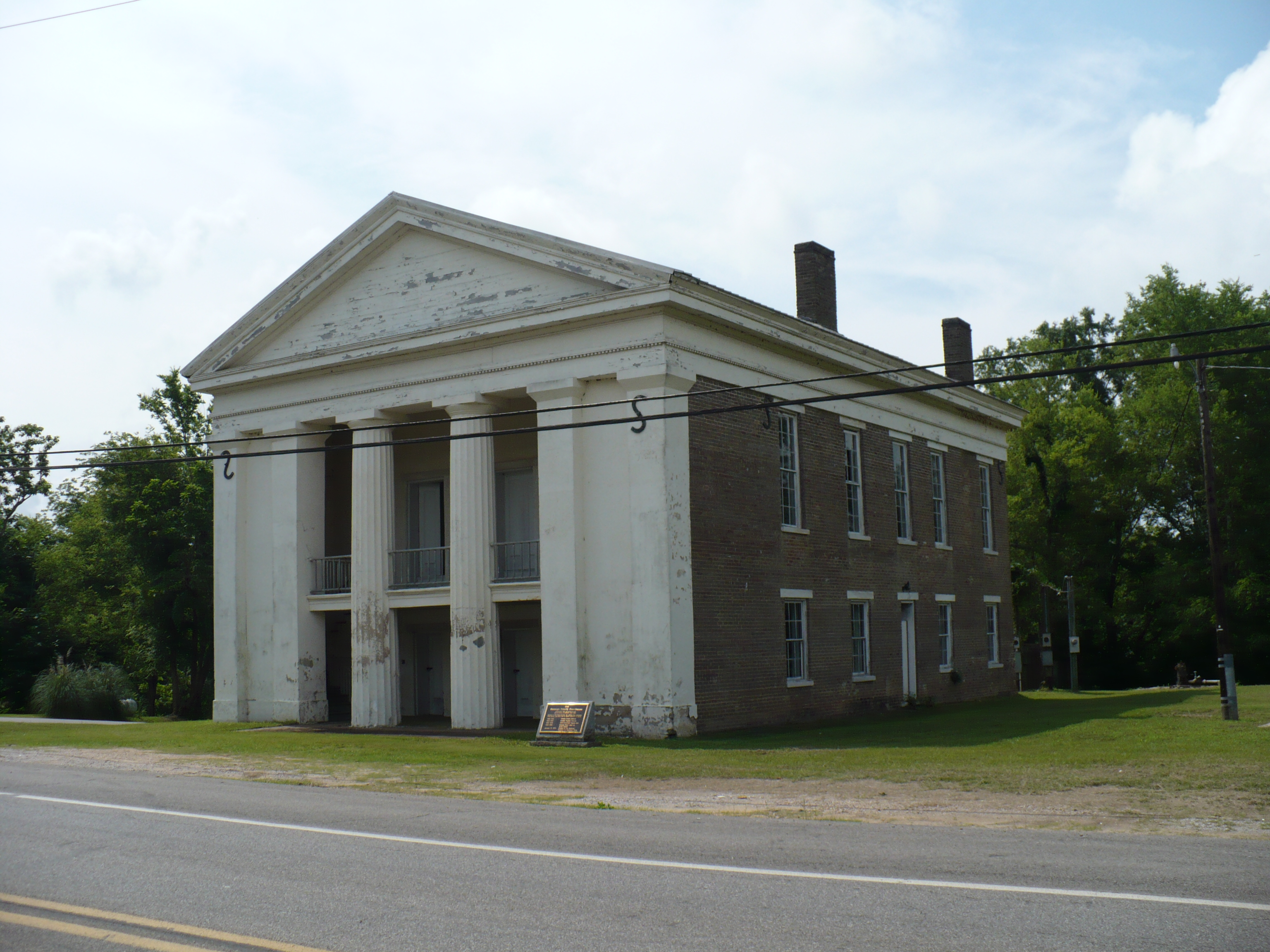 The antebellum-era Marengo County Courthouse in Linden, Marengo County, Alabama.